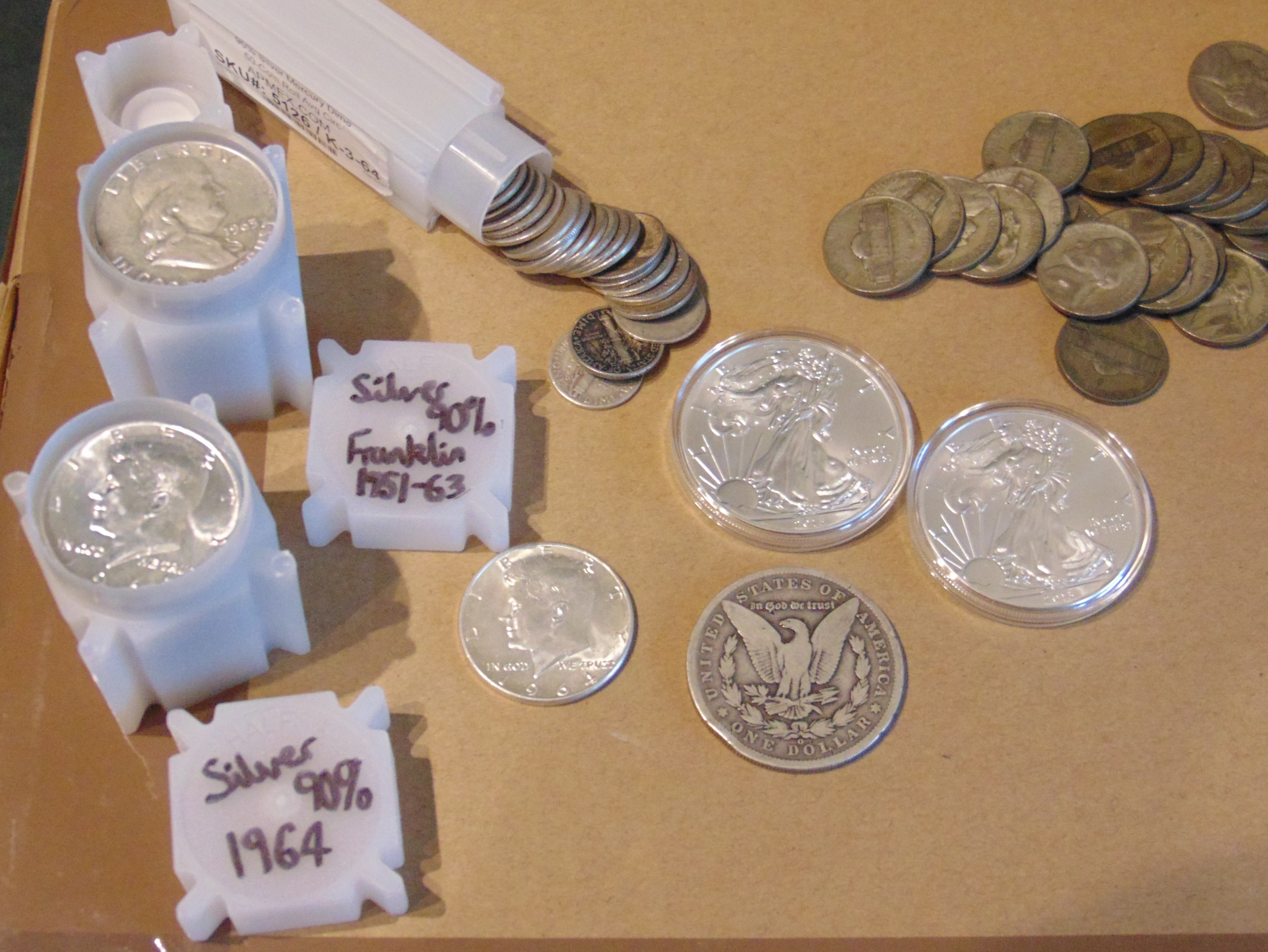 A selection of American modern and pre-1964 coinage used as investment silver; included here is a Morgan dollar, a selection of War nickels, tubes of Mercury dimes, Franklin half dollars and Kennedy Half dollars, and two American Silver Eagles.